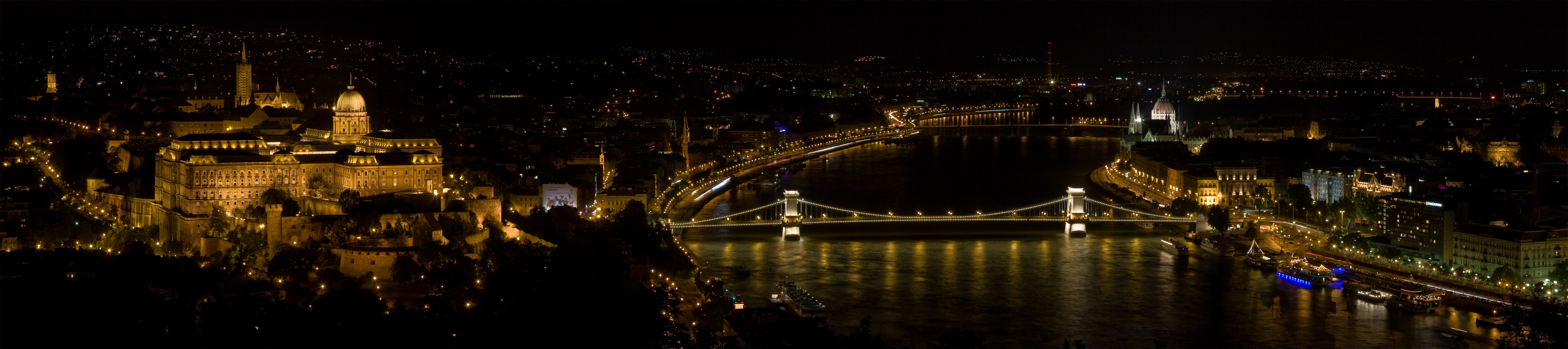 Budapest as seen from the Gellért Hill. From the left to the right you can see the Buda Castle, the Széchenyi Chain Bridge, and the Hungarian Parliament Building. Panorama stitched from 5 landscape format images. For stitching PTGUI [1] was used.